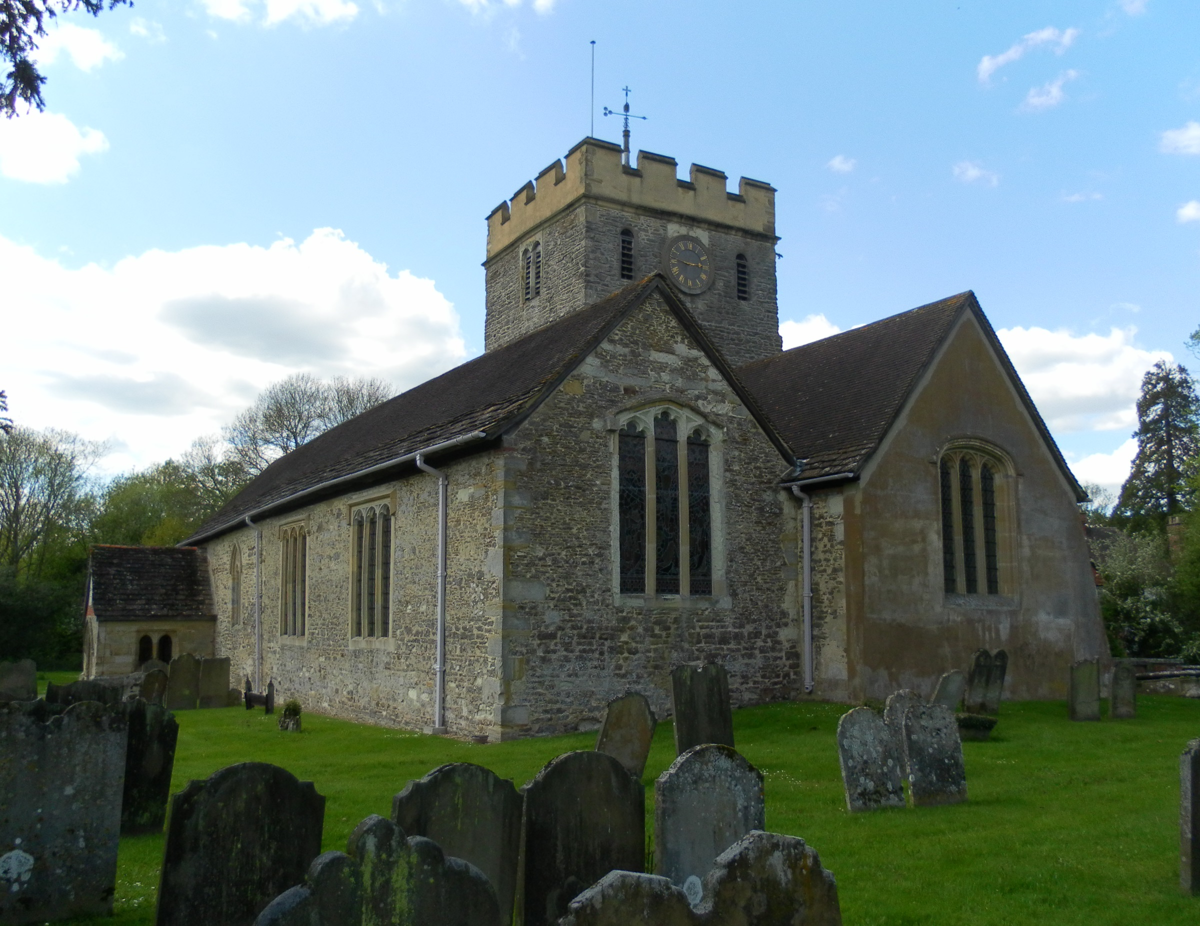 St Nicholas' Church, Rectory Lane, Charlwood, Mole Valley District, Surrey, England. Listed at Grade I by English Heritage (NHLE Code 1248610)